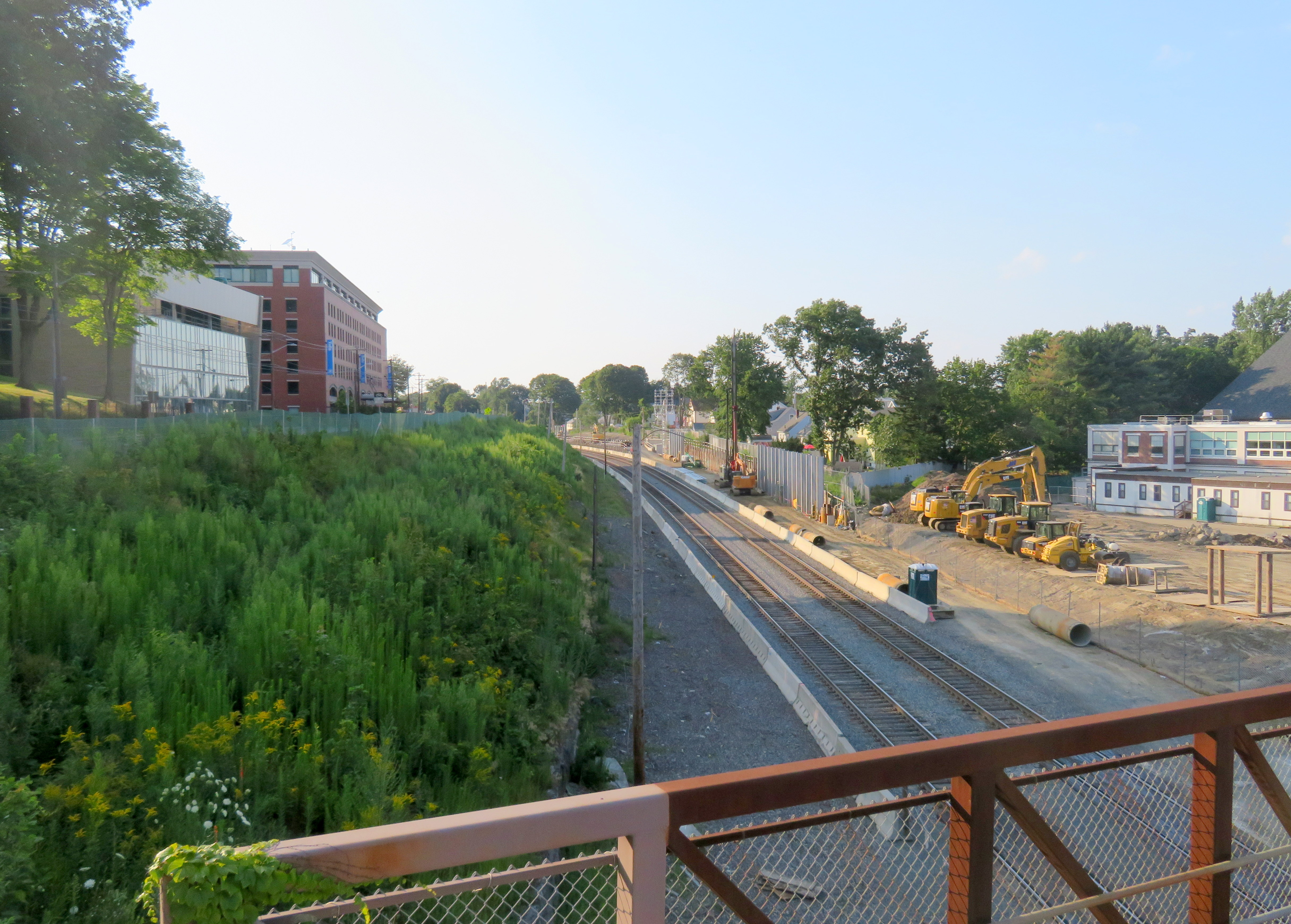 Medford/Tufts station (College Avenue station) under construction in July 2019